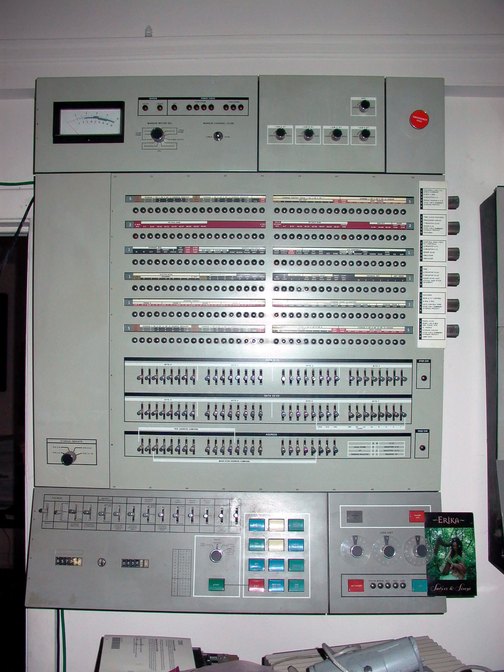 IBM System 360/65 Operator's Panel. The IBM System/360 Model 65 first shipped in 1966.